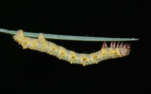 Phigalia pilosaria, larva. Location: The Netherlands - Nationaal Park de Meinweg - Wolfsplateau.